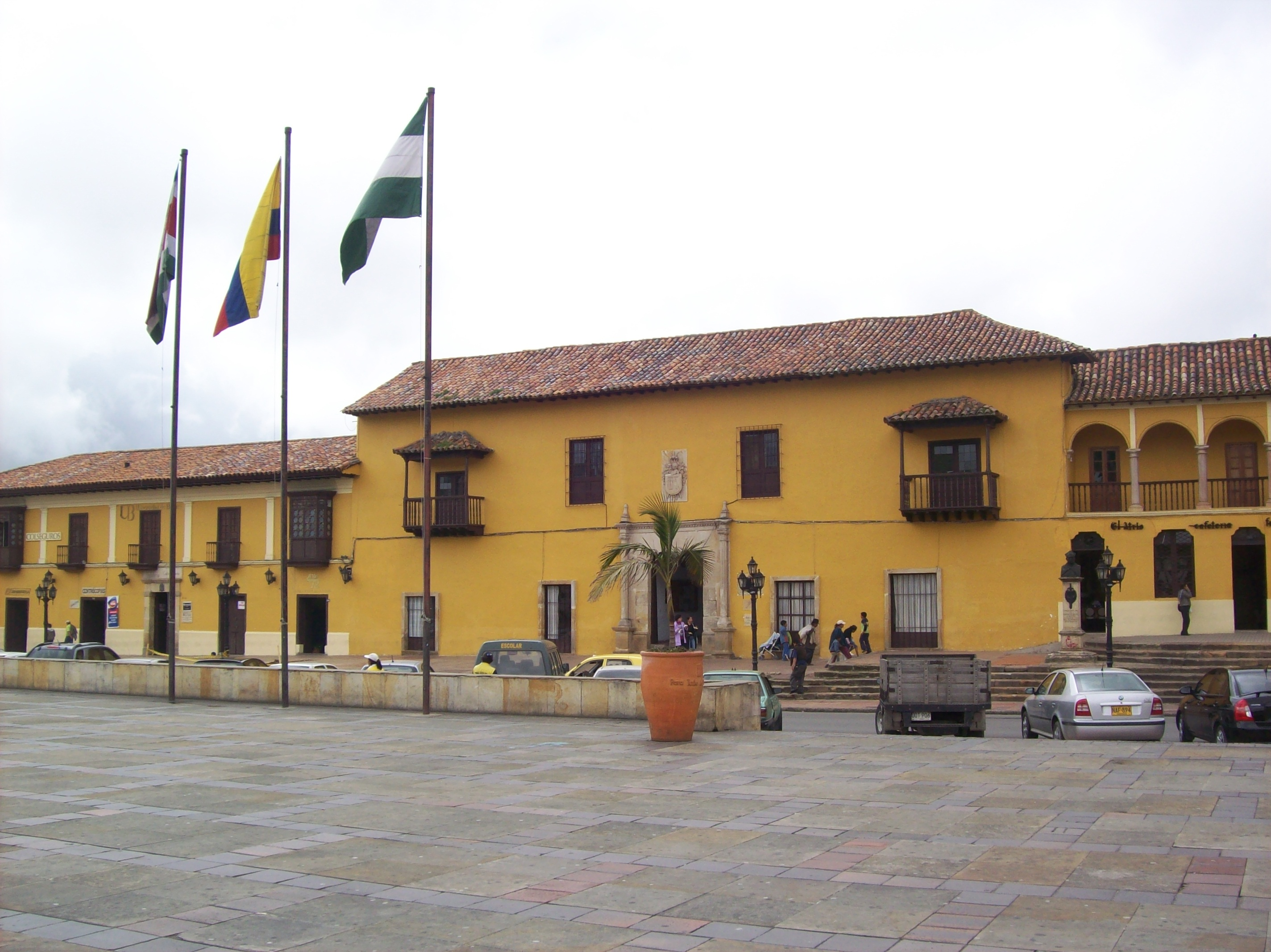 House of the founder of Tunja Gonzalo Suarez Rendon (Tunja's Bolívar Square)